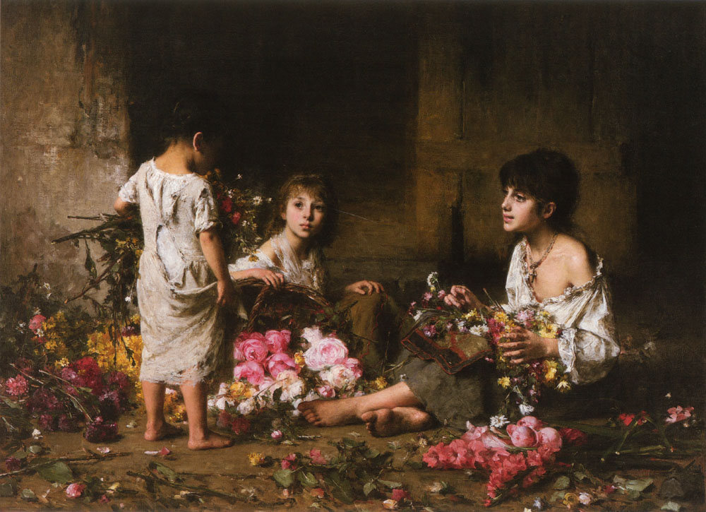 The Flower Girls